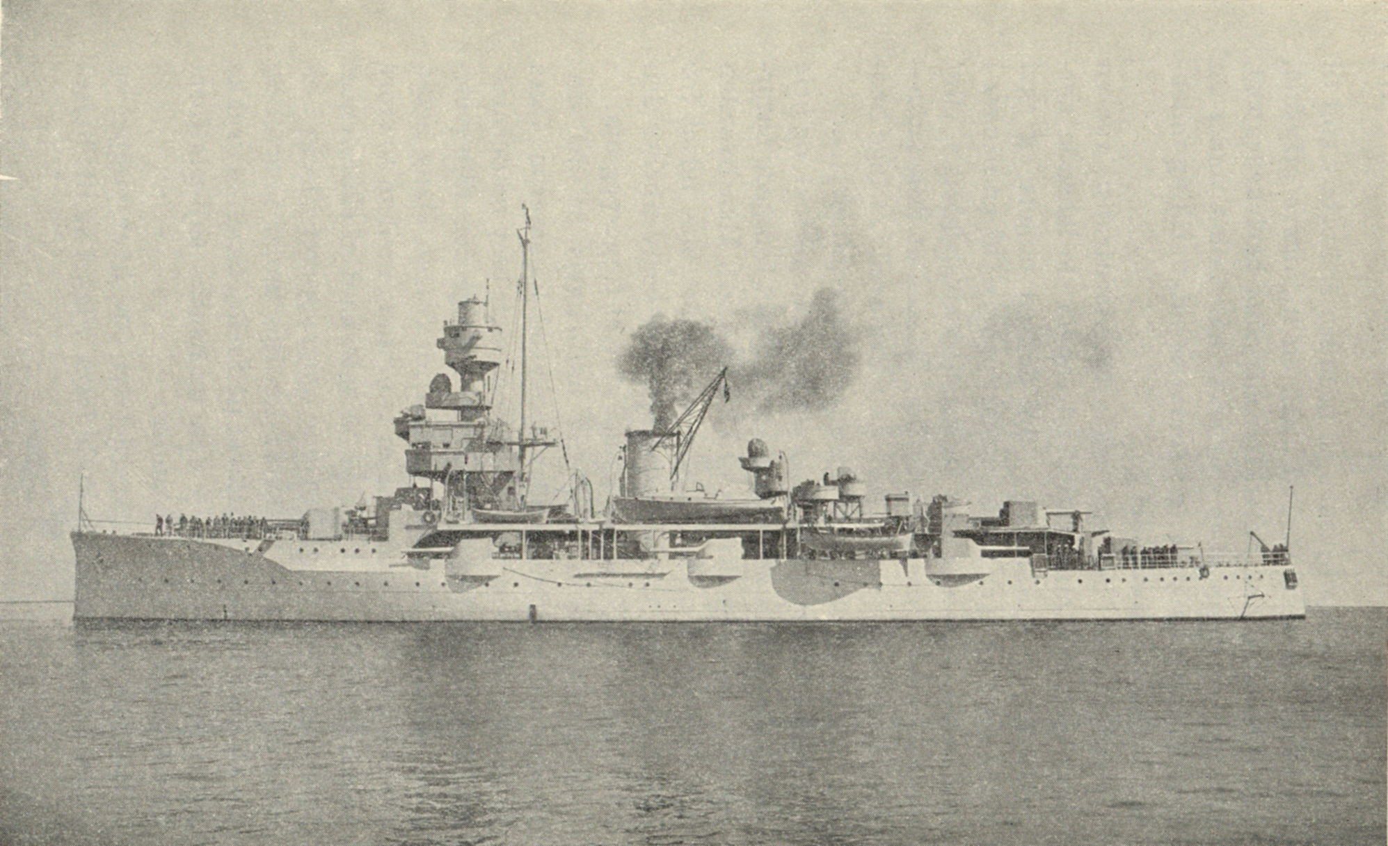 Danish Coastal defence ship Niels Juel, launched 1918, serving 1923 - 1943. Photographed in 1939